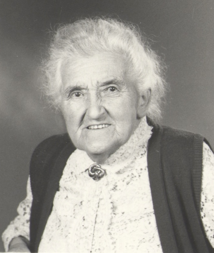 Portrait of Elisabeth Rothweiler